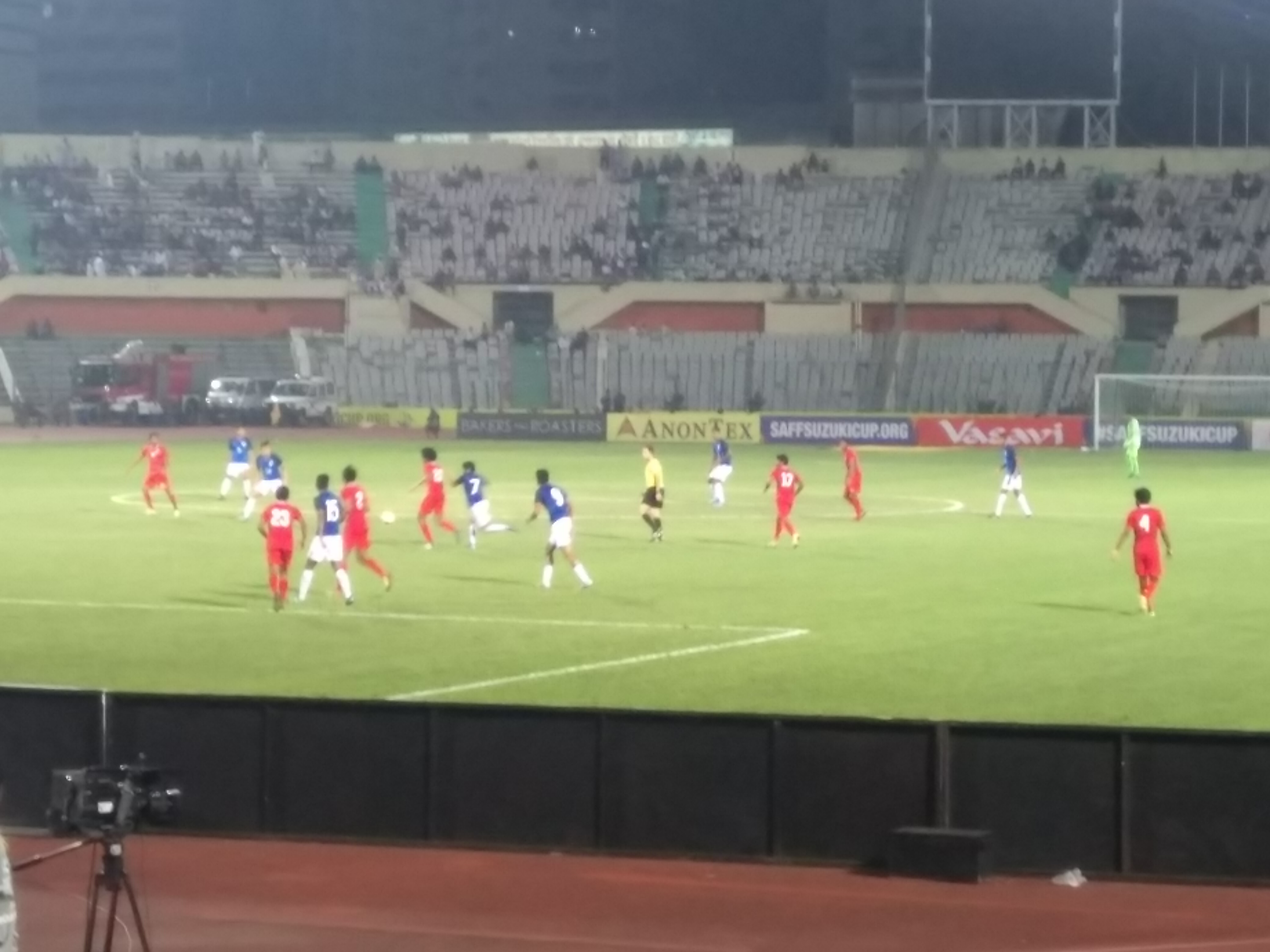 2018 SAFF Championship Final (Maldives vs India) at Bangabandhu National Stadium, Dhaka, Bangladesh.